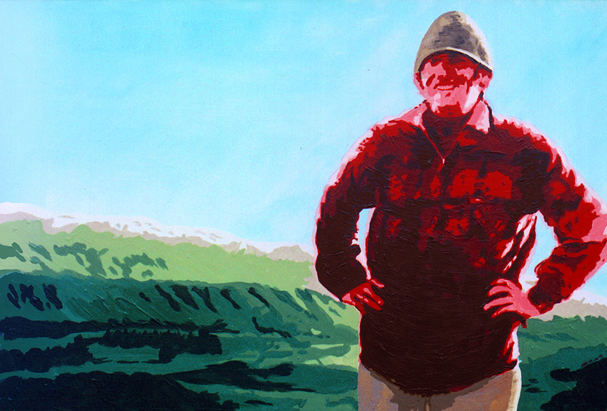 "Southern Man" 2002 painting by James Dignan, acrylic on board. (Note: uploader, User:Grutness is James Dignan)